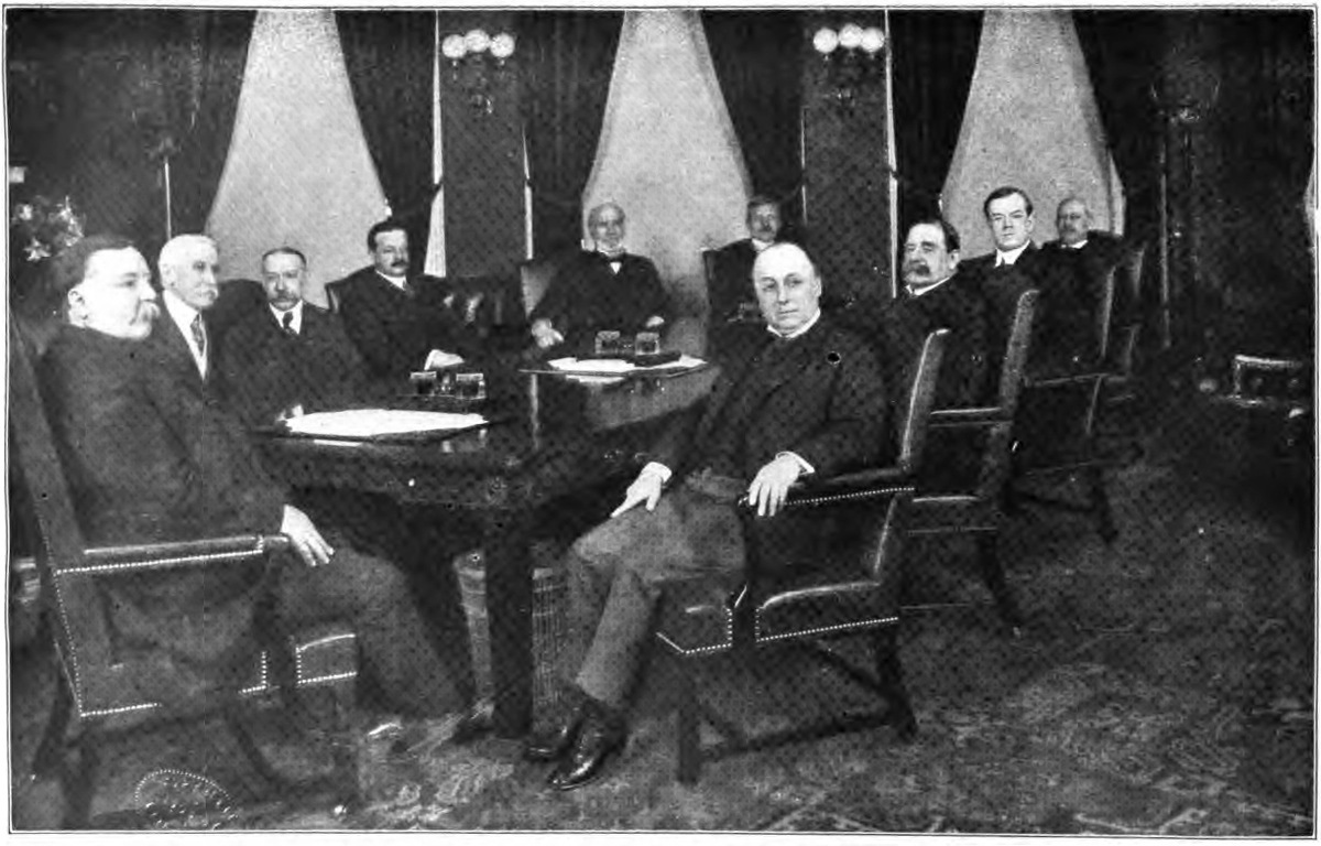 President William H. Taft's second cabinet 1912